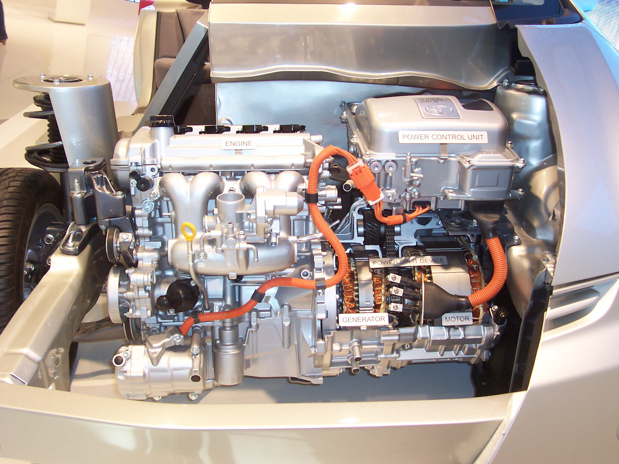 Toyota Showroom in Paris